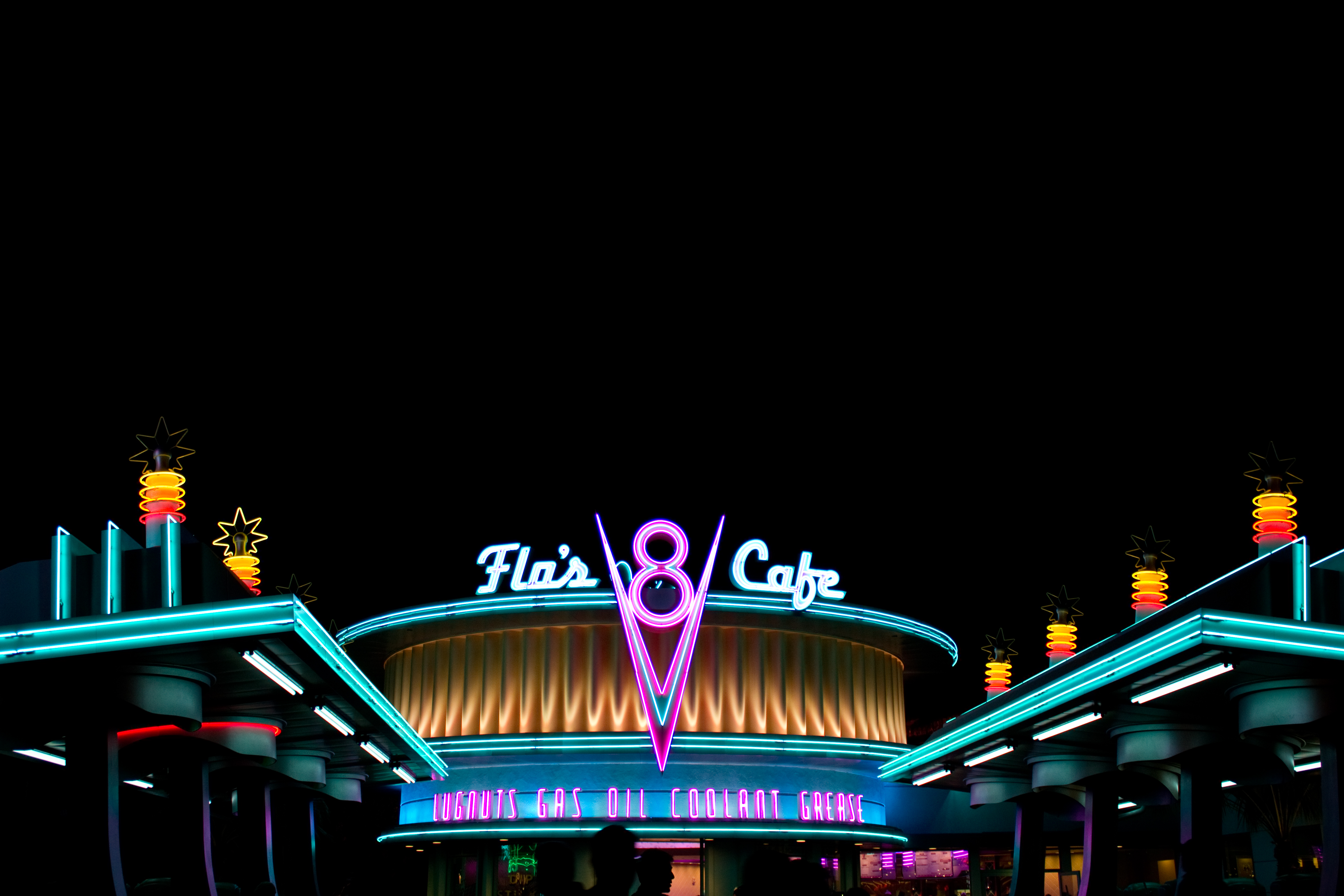 Cars Land is amazingly beautiful at night. I could spend hours there!